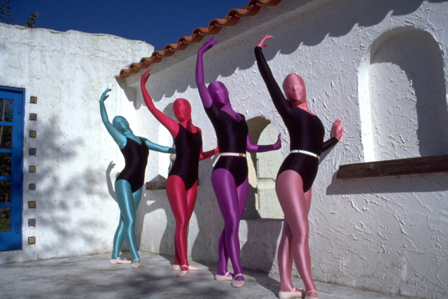 Four women wearing leotards and zentai suits.